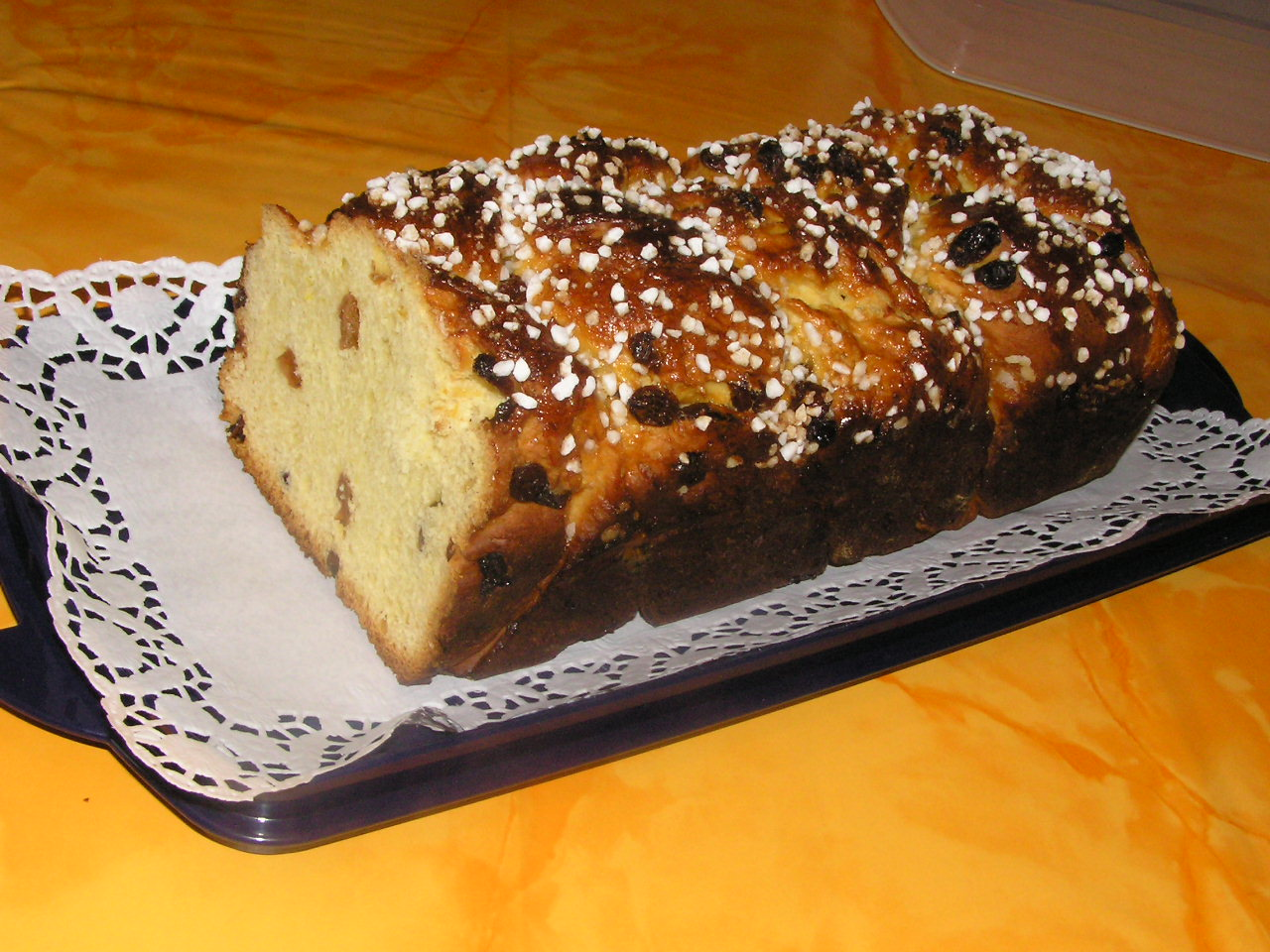 Cozonac